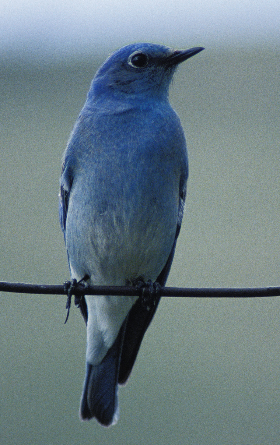 Mountain Bluebird (Sialia currucoides)